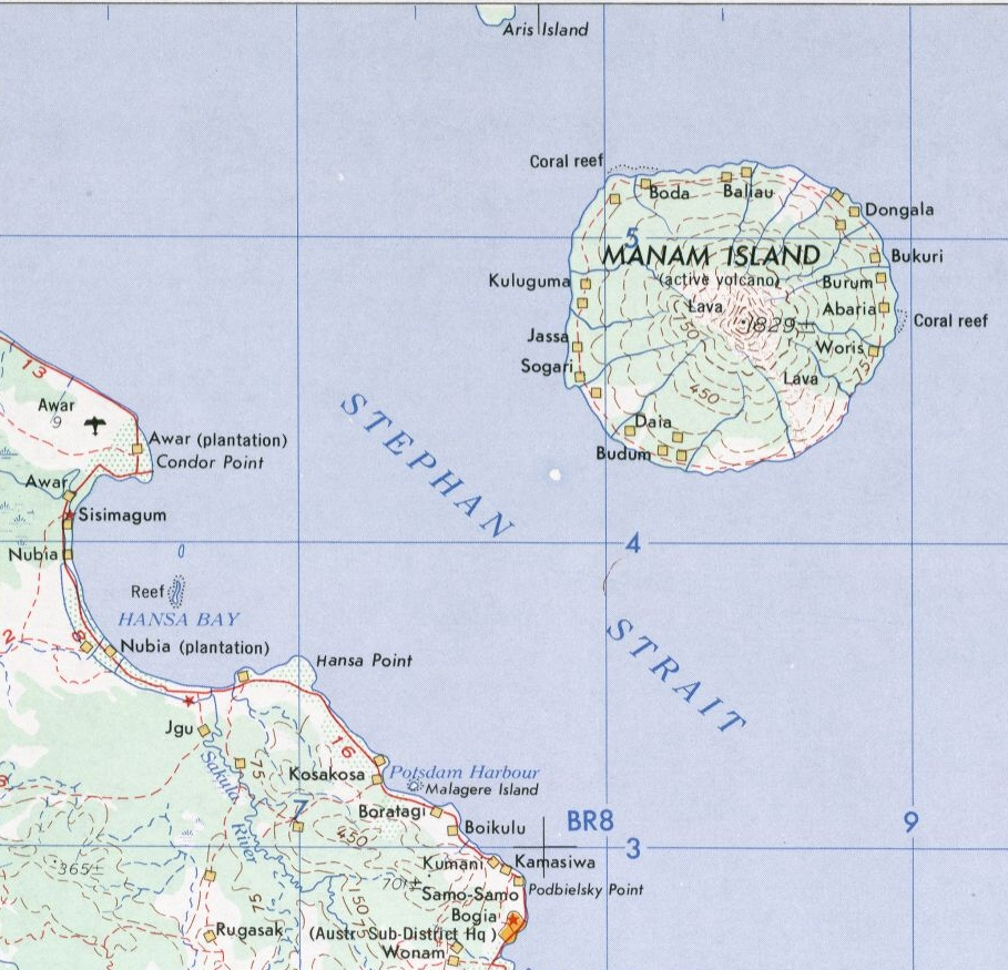 Manam Island, Papua New Guinea, and adjacent coast with Bogia